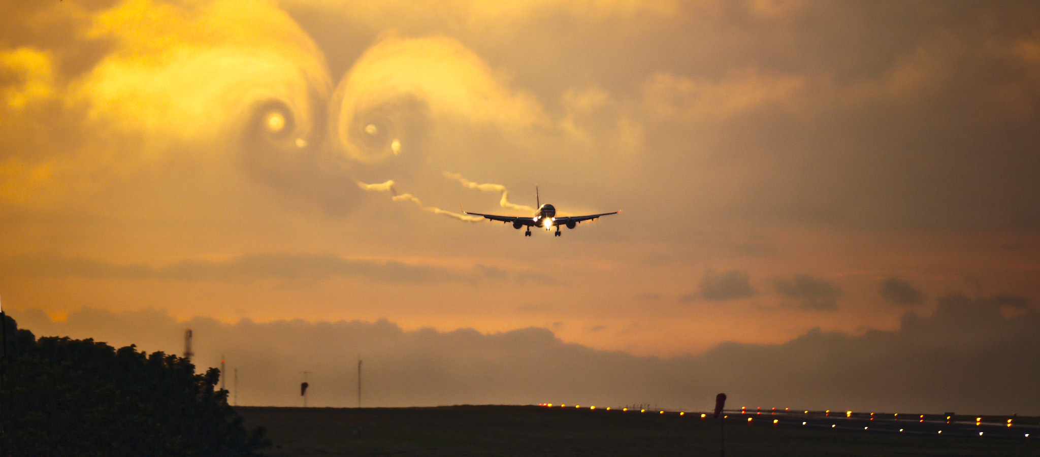 The wake patterns behind an American Airlines B752 while approaching MROC / SJO are highlighted by the low sunlight